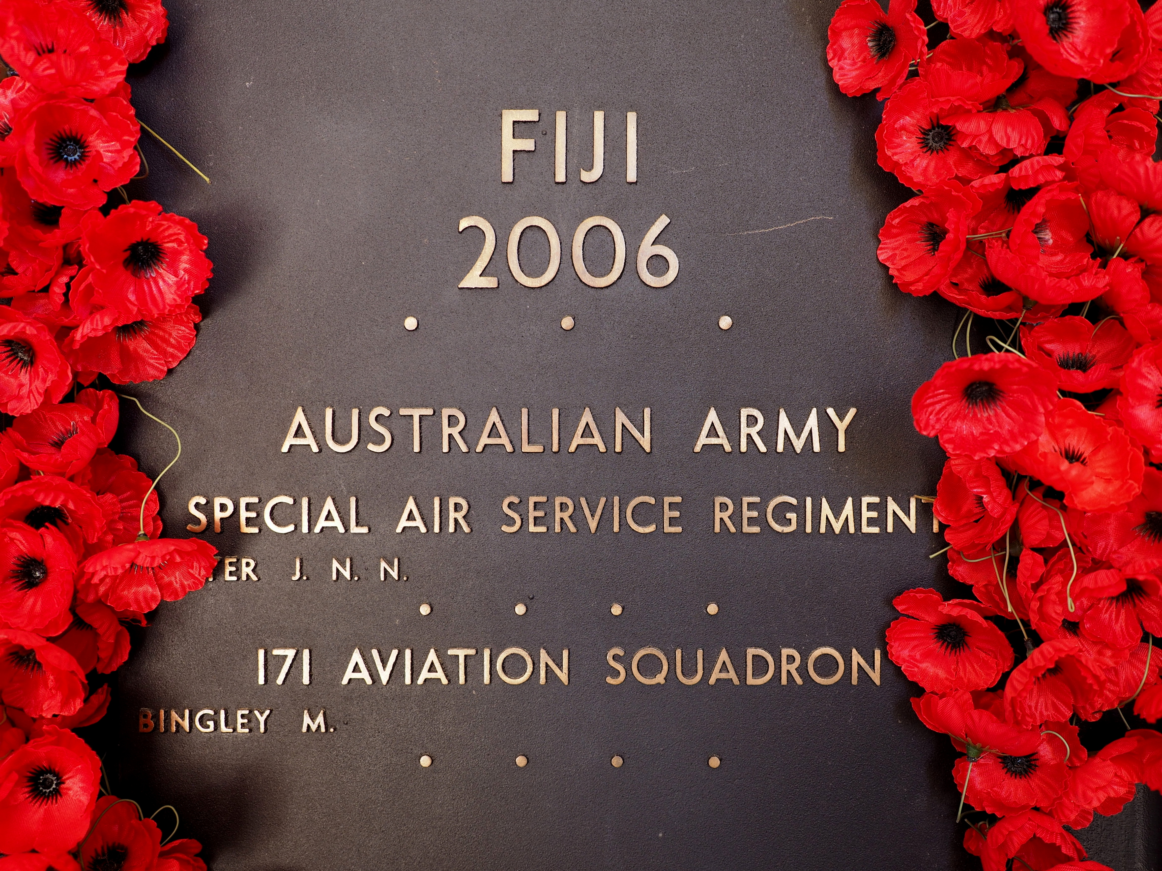 The section of the roll of honour at the Australian War Memorial commemorating the Australian Army soldier and pilot killed during Operation Quickstep in 2006